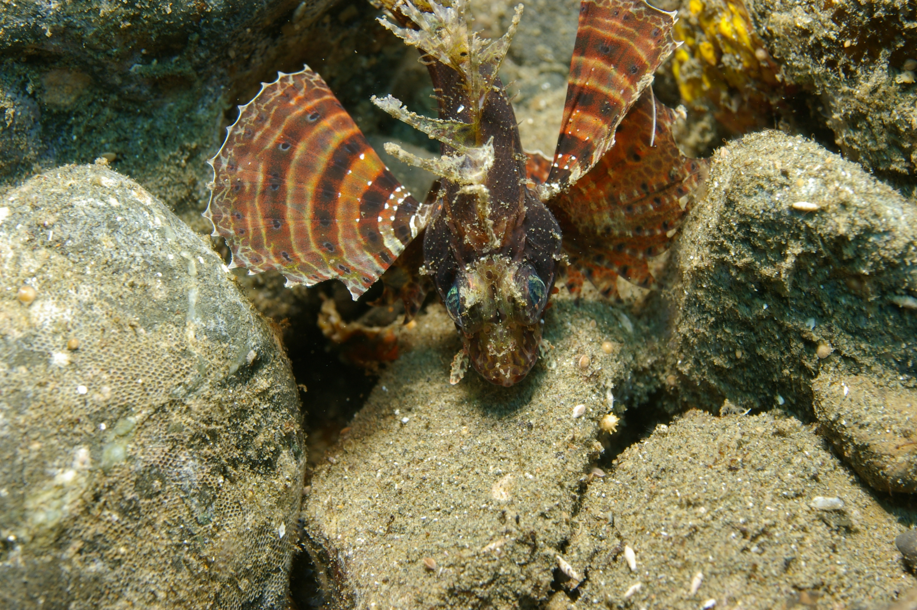 Photograph of a Dwarf Lionfish (Dendrochirus brachypterus), taken at night in Papua New Guinea. The length of this specimin is approximately five inches from head to tail. Taken with a Pentax istDS with a 50mm macro lens.